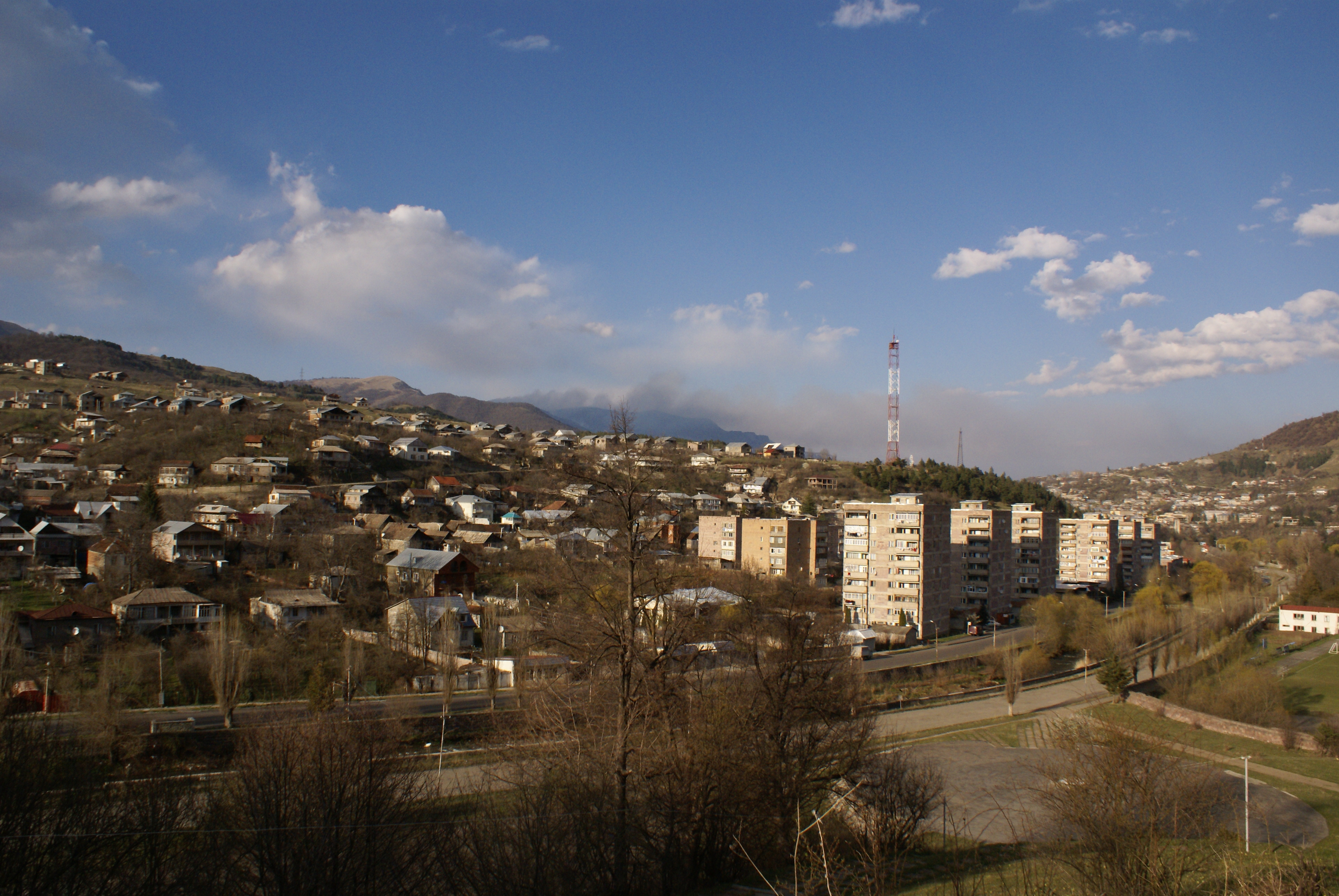 Dilijan